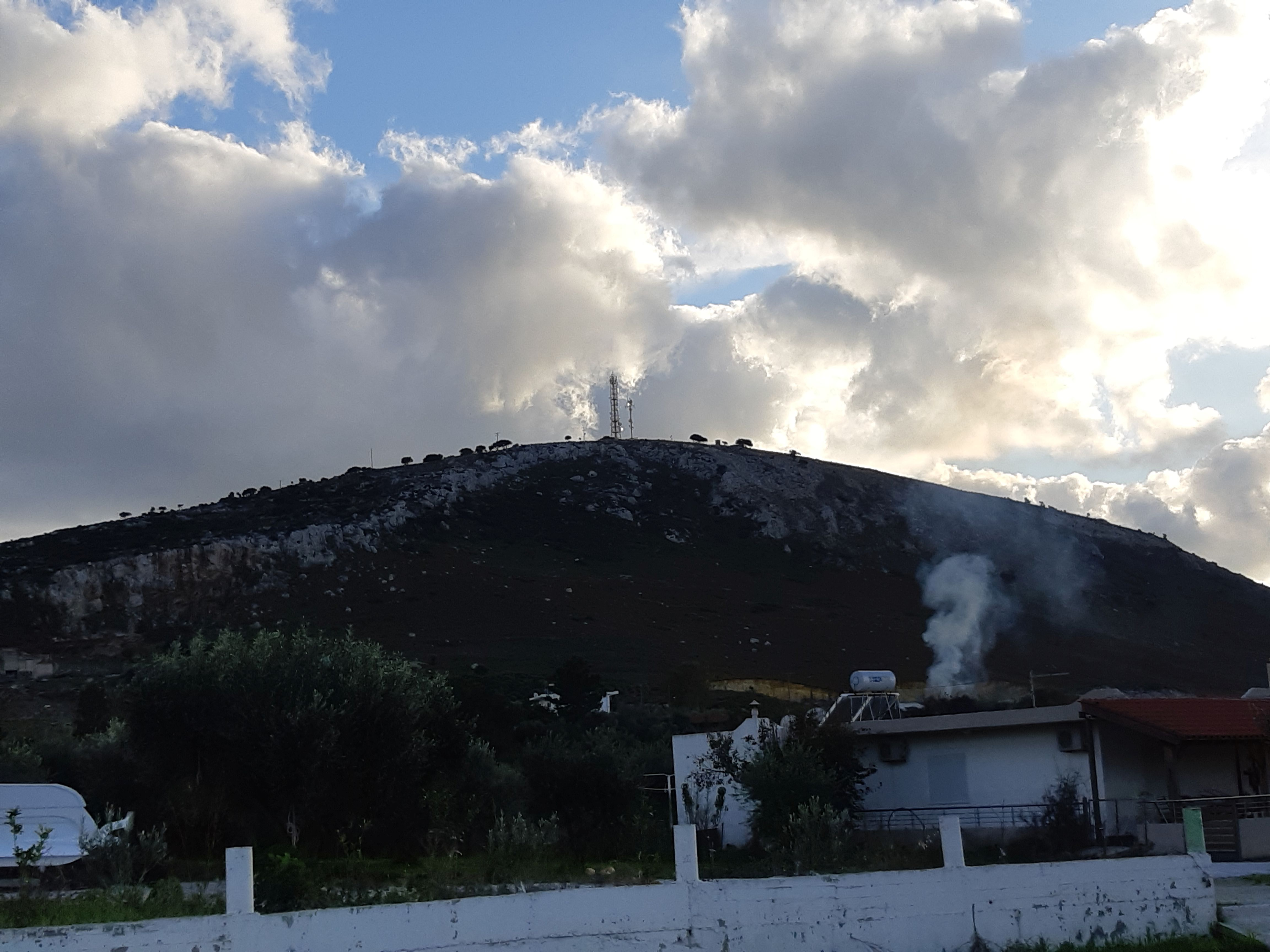 Steel pylon on a hill near Linopotis in the restricted military area.